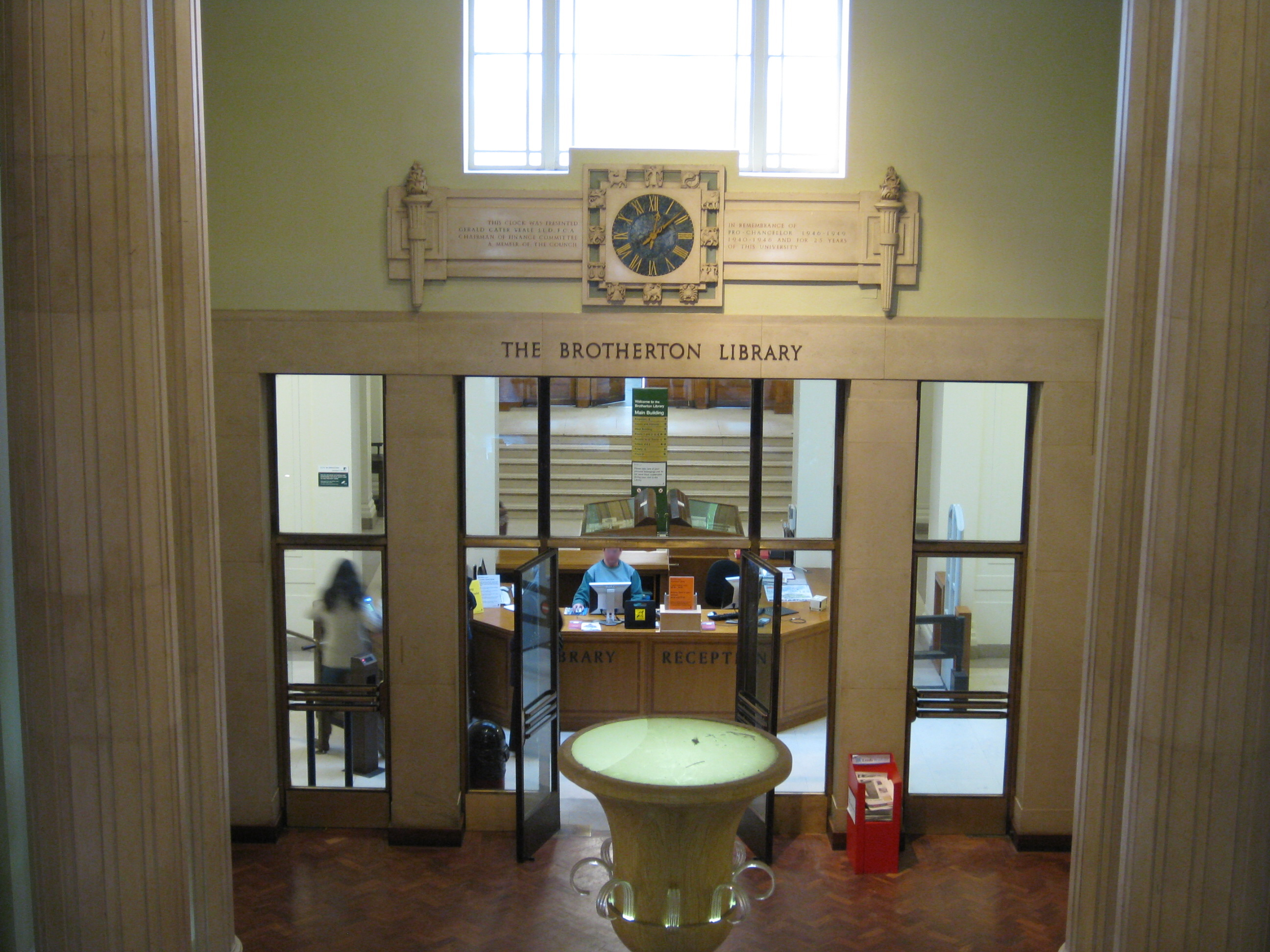 Entrance to the Brotherton Library from the interior of the Parkinson Building, University of Leeds.